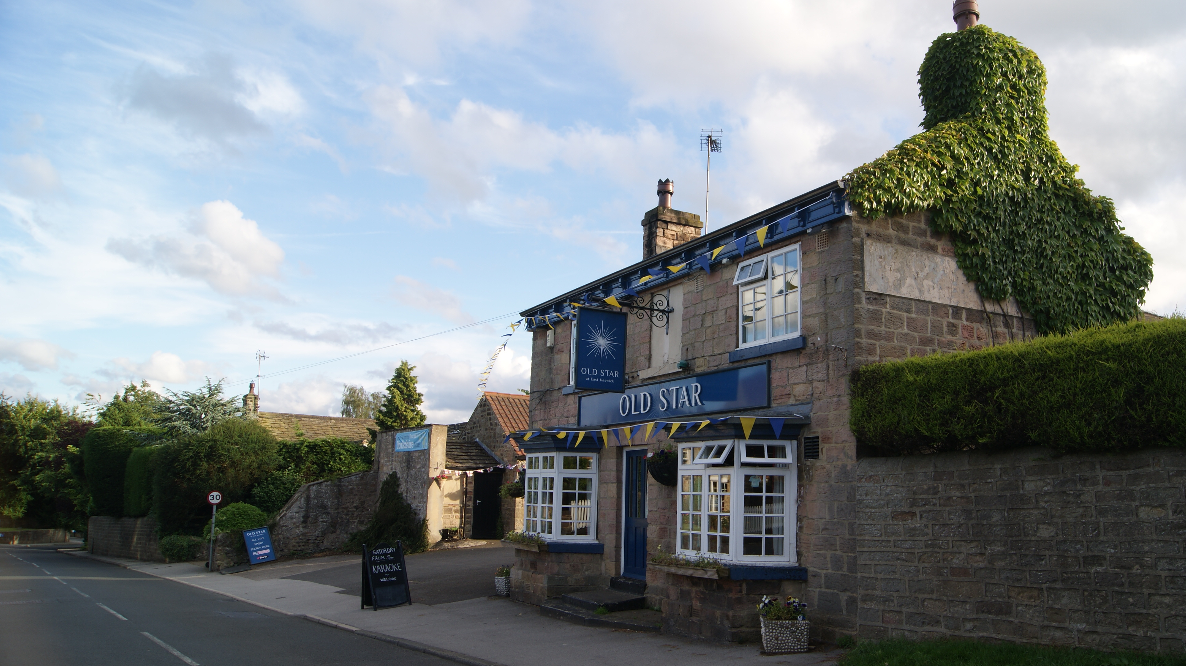 Old Star, Main Street, East Keswick, West Yorkshire. Taken on the evening of Friday the 8th of July 2016.